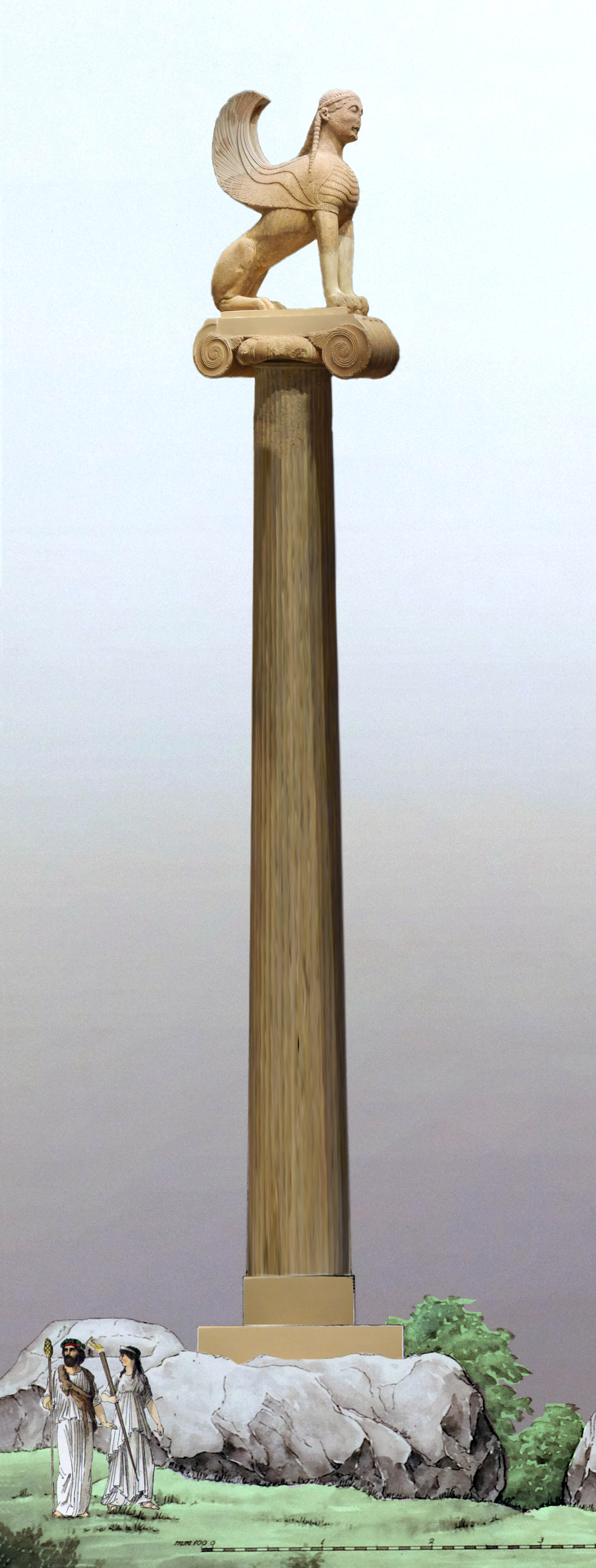 Naxos Sphinx with humans for size